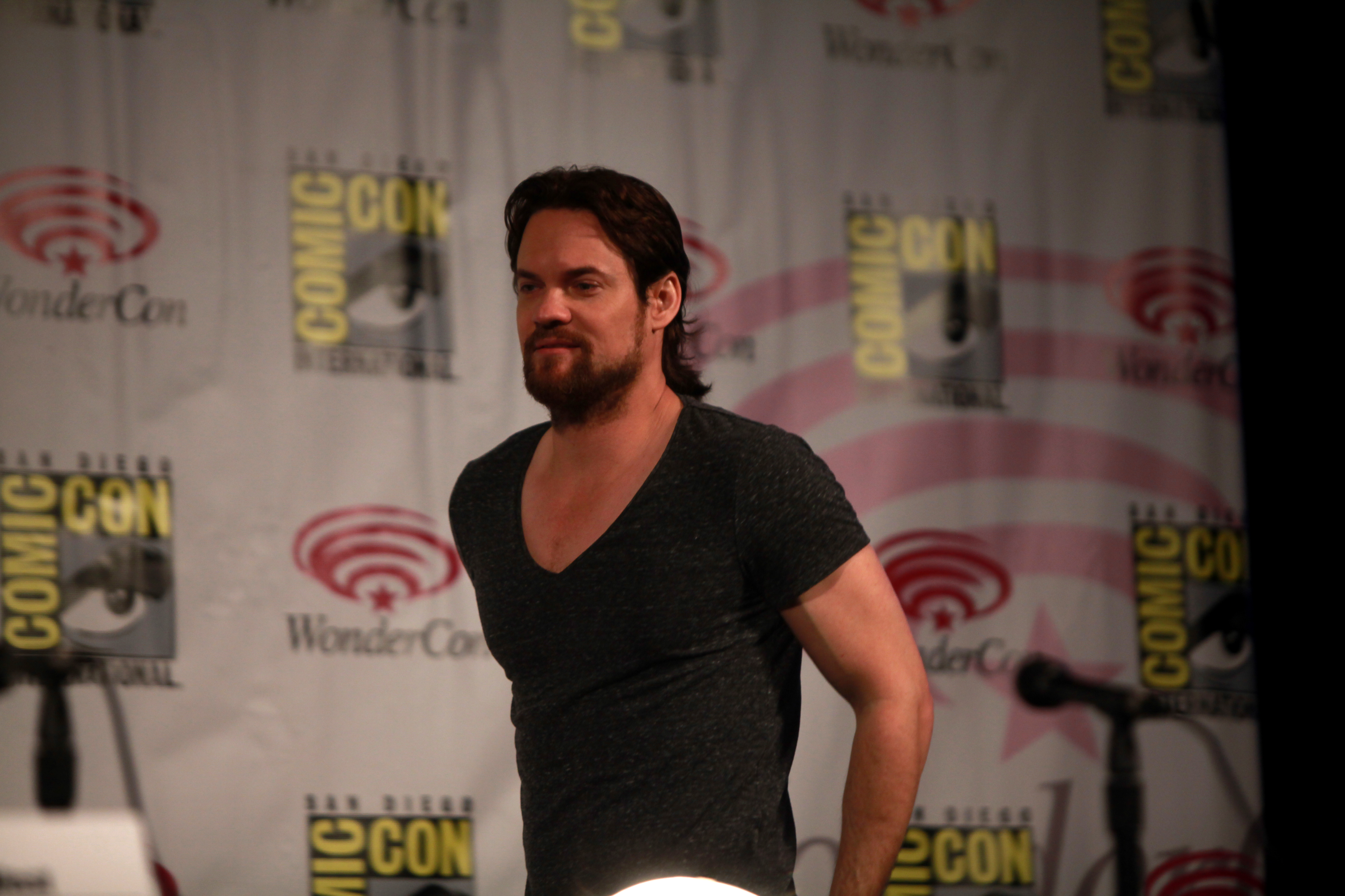 Shane West speaking at the 2014 WonderCon, for "Salem", at the Anaheim Convention Center in Anaheim, California.